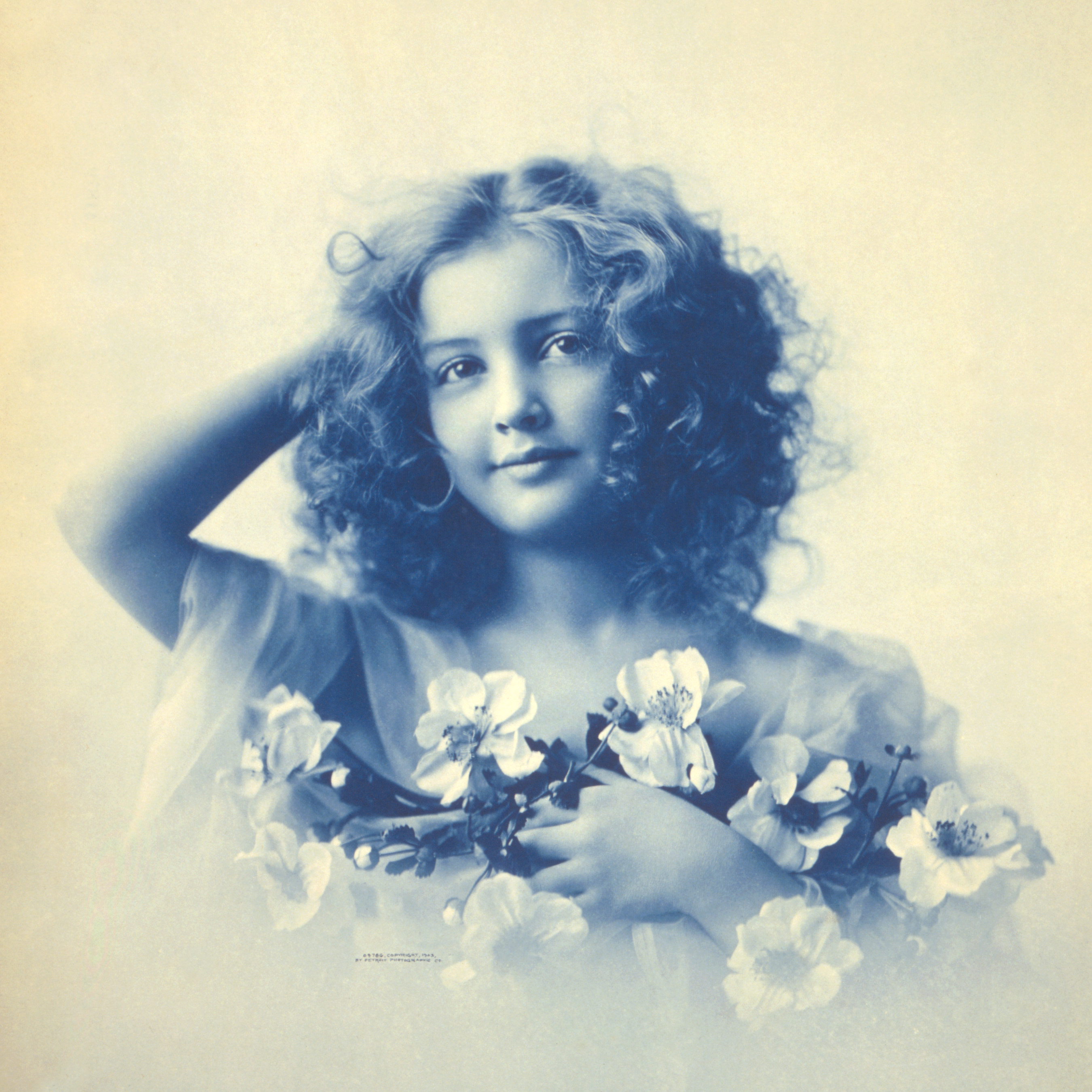 "Editha". 1 photographic print mounted on thin mat : cyanotype ; image 40.5 x 50.5 cm.